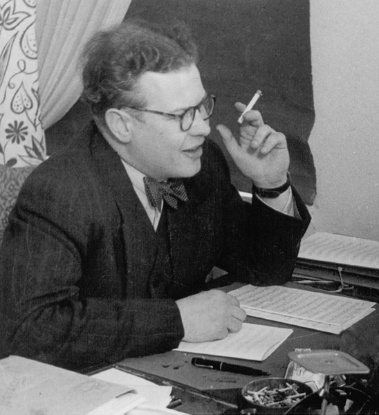 Finnish composer Toivo Kärki in 1947